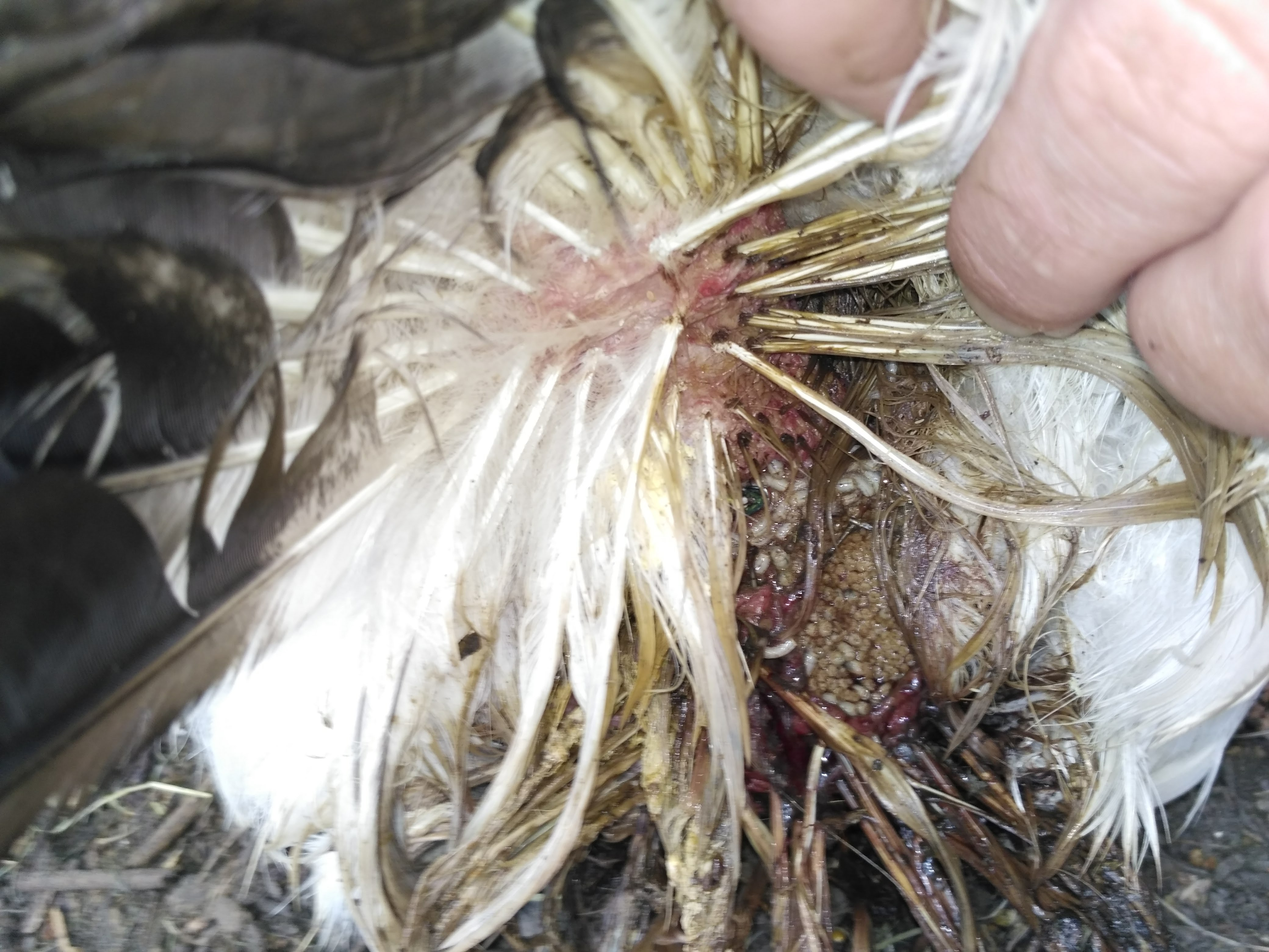 Severe myiasis around a hen's underside - proximal to its cloaca.